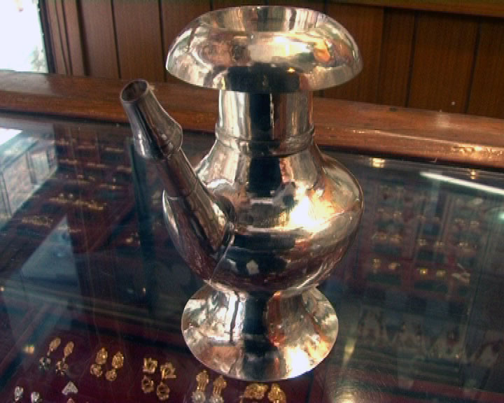 vessel used to drink water